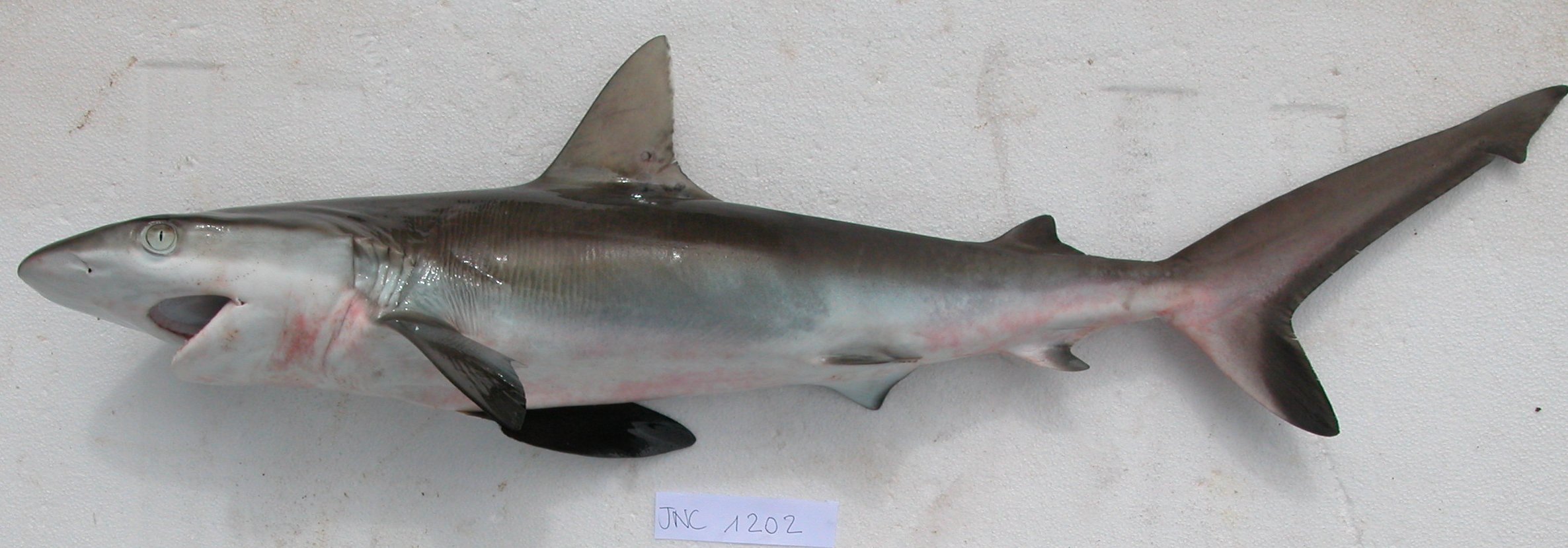 Carcharhinus amblyrhynchos. Body, lateral view. Locality: near Récif Le Sournois, off Nouméa, New Caledonia. Total Length 800 mm, Weight 2,900 grams, Date 13-07-2004.